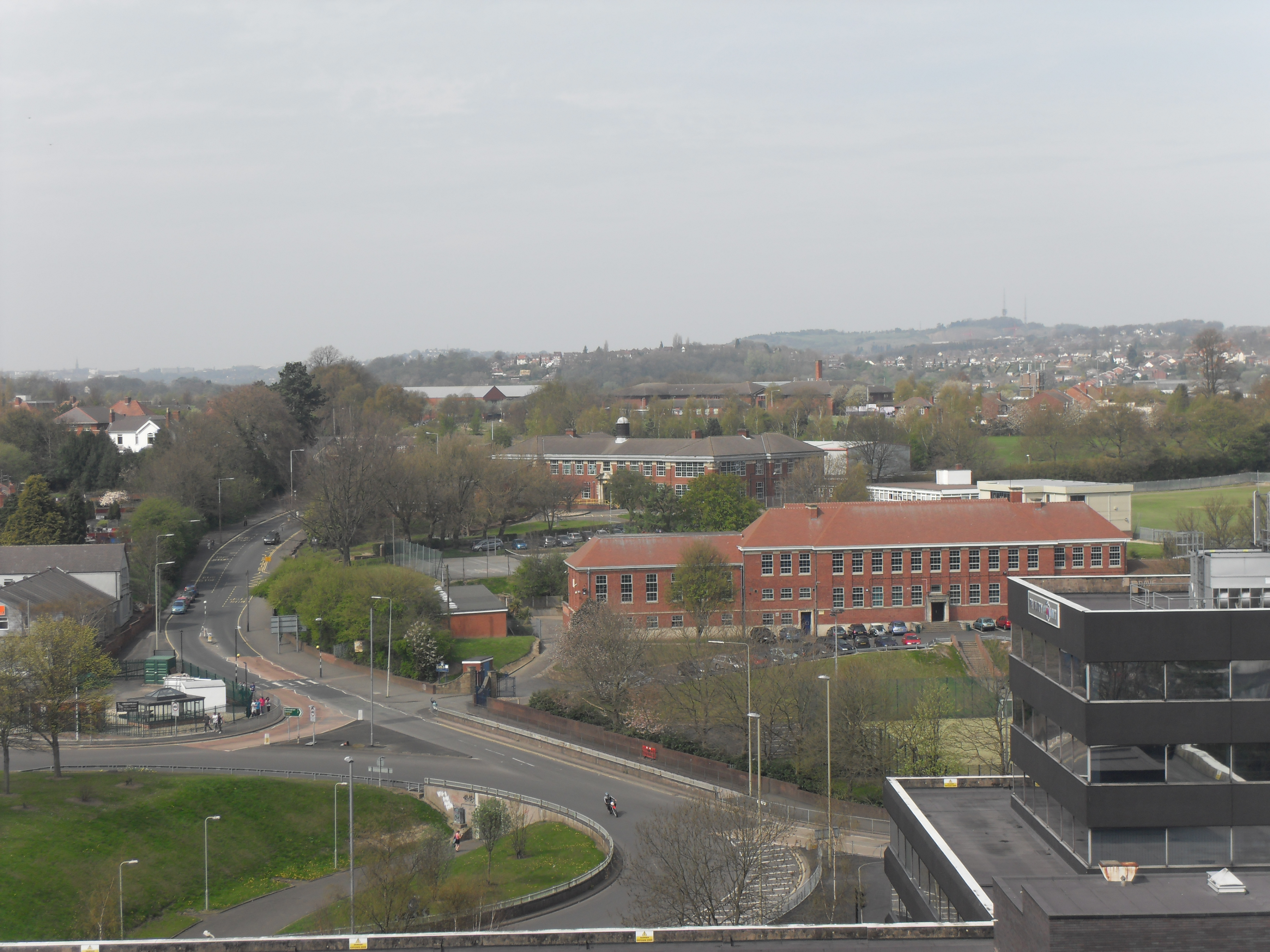 Photograph of The Earls High School, Halesowen, Worcestershire, United Kingdom. This photo was taken from the tower of St John the Baptist Church during Halesowen's St George's Day celebrations in 2010. The Earls High School was founded in 1652. St John the Baptist Church is has a 1,000 year history and is a Grade 1 listed building.